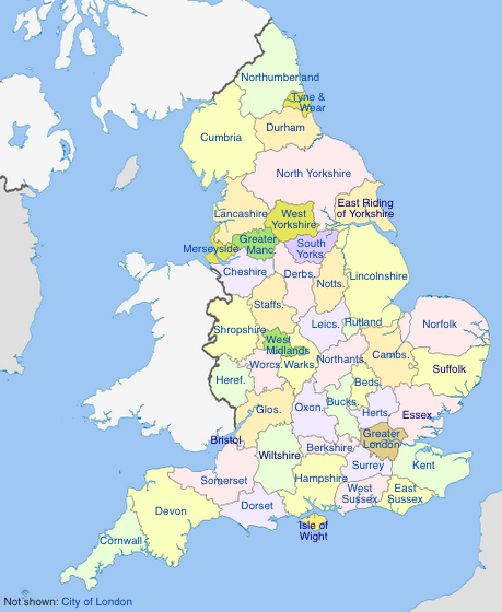 Labelled map of the Ceremonial Counties of England